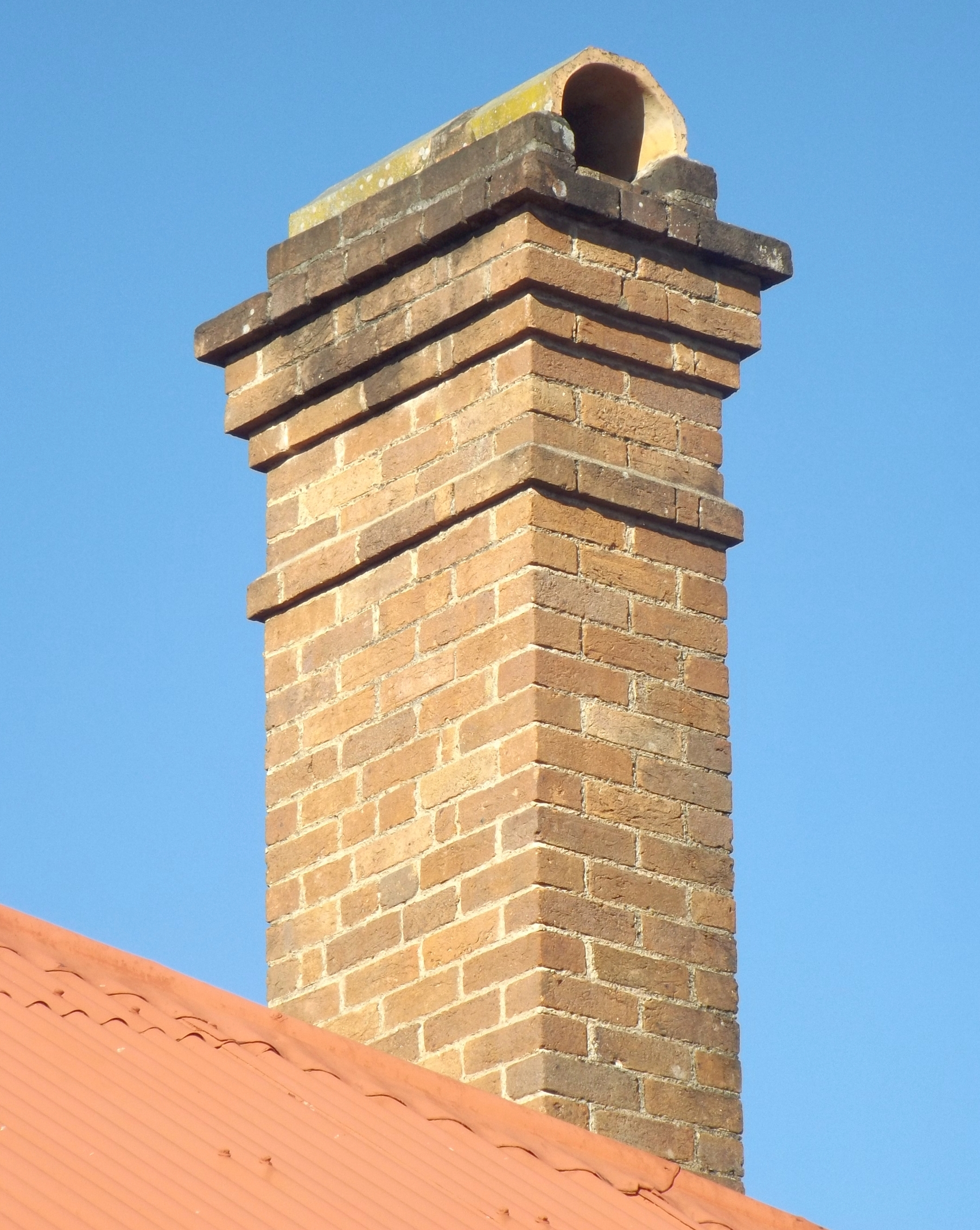 Photo of the chimney at the Craigerne residence at Red Hill, Brisbane, Queensland, Australia.